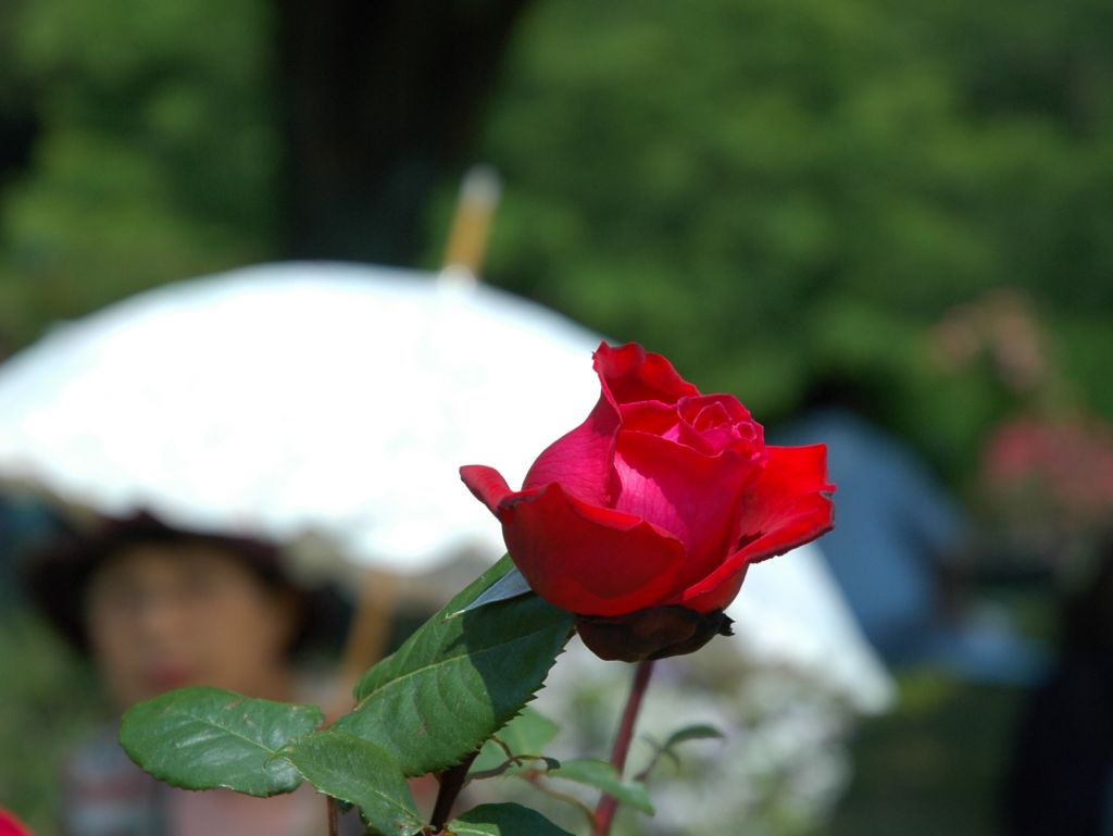 Rose garden of Kinkōwan Park